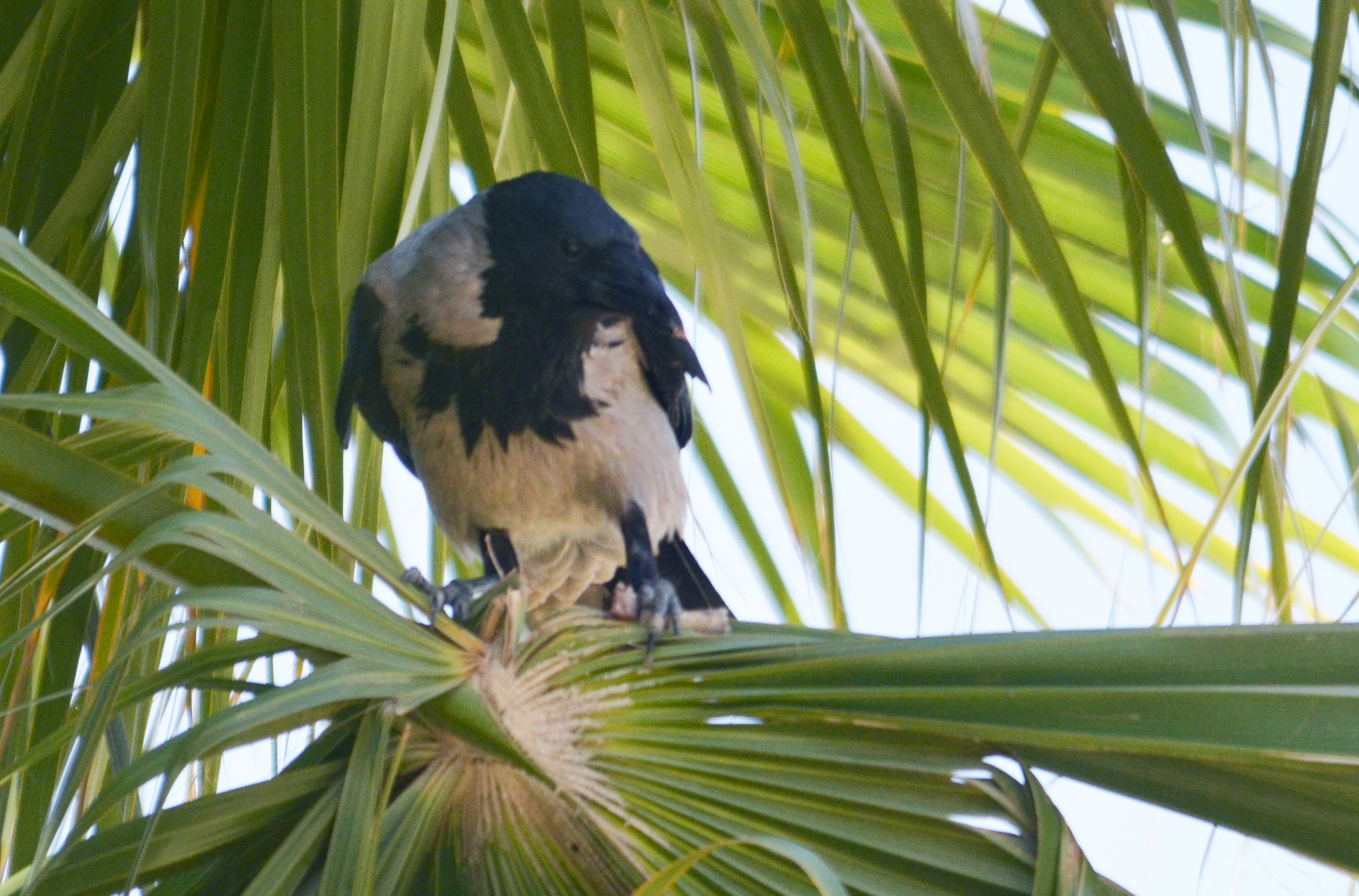 Hooded crow